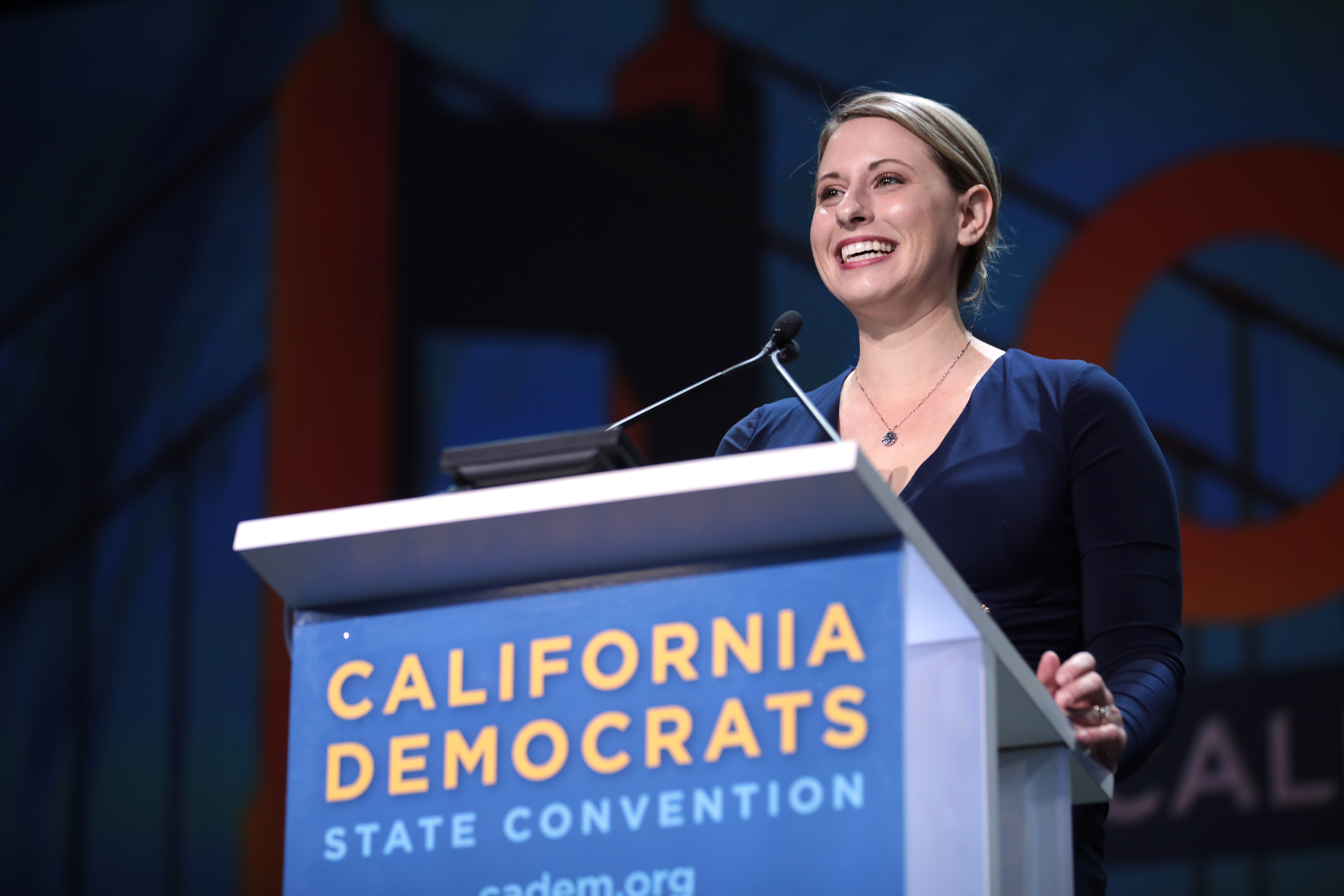 U.S. Congresswoman Katie Hill speaking with attendees at the 2019 California Democratic Party State Convention at the George R. Moscone Convention Center in San Francisco, California.